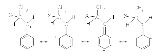 halogen addition to 1-fenylpropene; resonance in intermediate carbocation